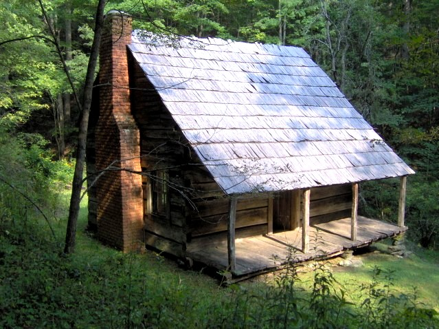 Hannah Cabin in Little Cataloochee, located in the Great Smoky Mountains of North Carolina. The cabin was built in the mid-1800s by John Jackson Hannah, the son of early pioneer Evan Hannah. The cabin's brick chimney is one of only three in the Smokies.